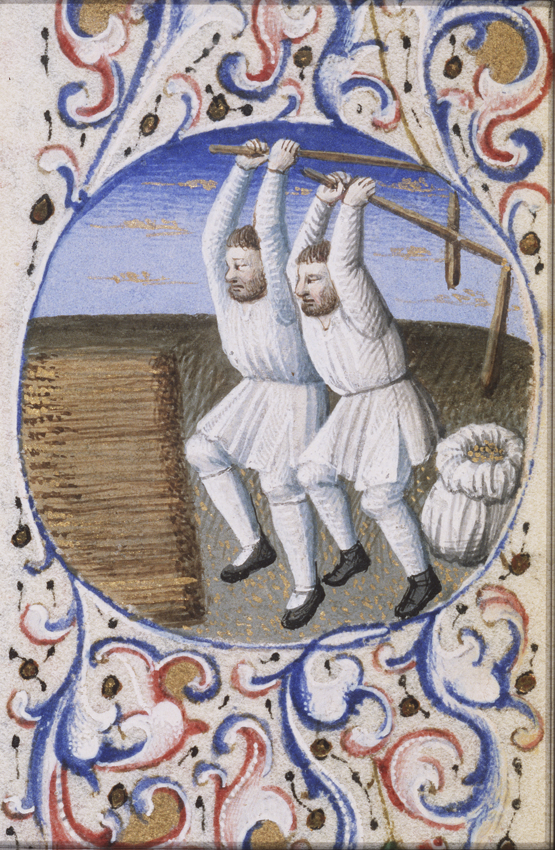 August - two men threshing - miniature from folio 095r from the Book of Hours of Simon de Varie - KB 74 G37a Topics depicted in this miniature August and its 'labours' (23K32) Threshing (47I148) This miniature is part of folio 095r